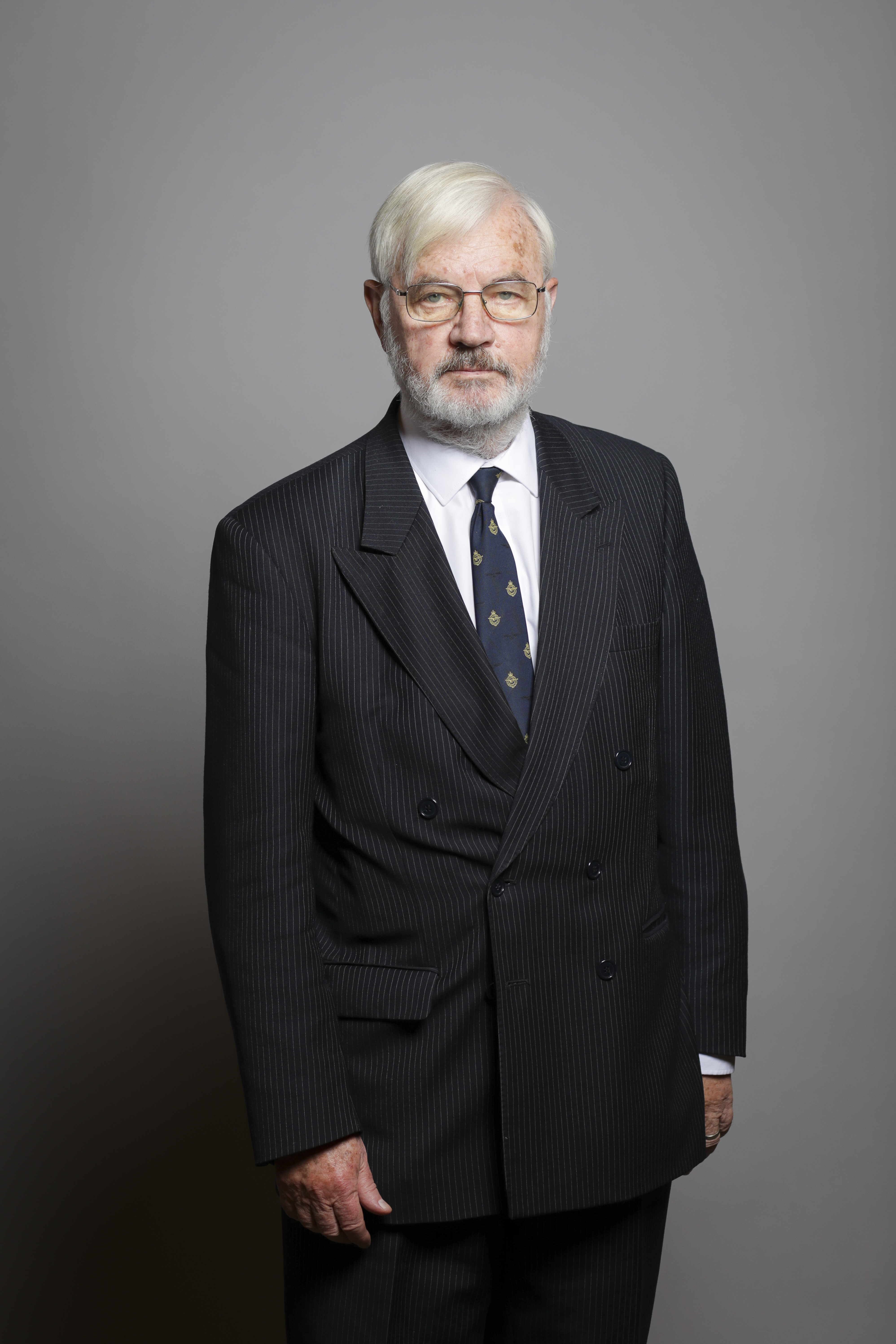 Official portrait of Lord Tunnicliffe Full sized portrait of Lord Tunnicliffe